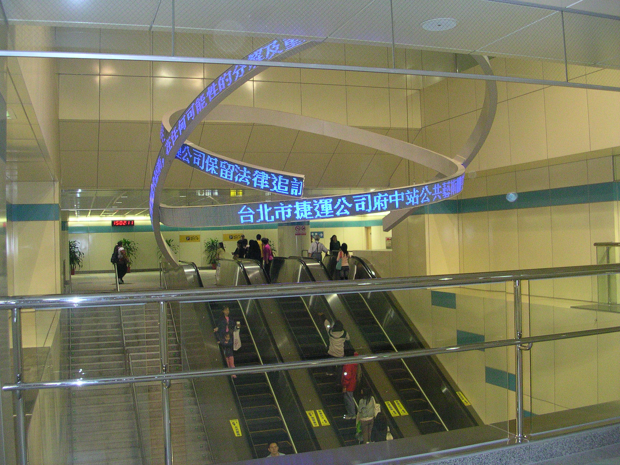 "Poetry On The Move"(空間之詩), LED public art in MRT Fuzhong Station.Bân-lâm-gú: Tâi-pak tsiat-ūn Hú-tiong-tsām ê LED "khong-kan tsi si." 臺北捷運府中站的LED公共藝術「空間之詩」。